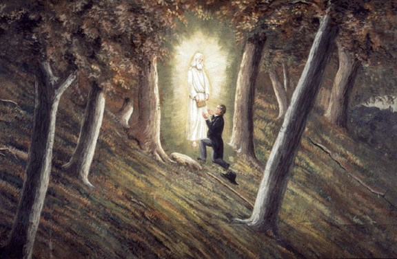 C.C.A. Christensen's painting of Joseph Smith receiving the Golden Plates from the Angel Moroni at the Hill Cumorah. Entitled "The Hill Cumorah". (description adapted from Image:Josephreceivingtheplatesccachristensen.gif)